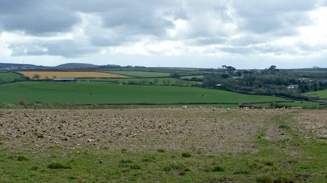 View south of Tregaswith Farm The sheep are on a field of swedes. The green field in the centre at Trebudannon has fences and a building to the left that would be conducive to a point-to-point course.